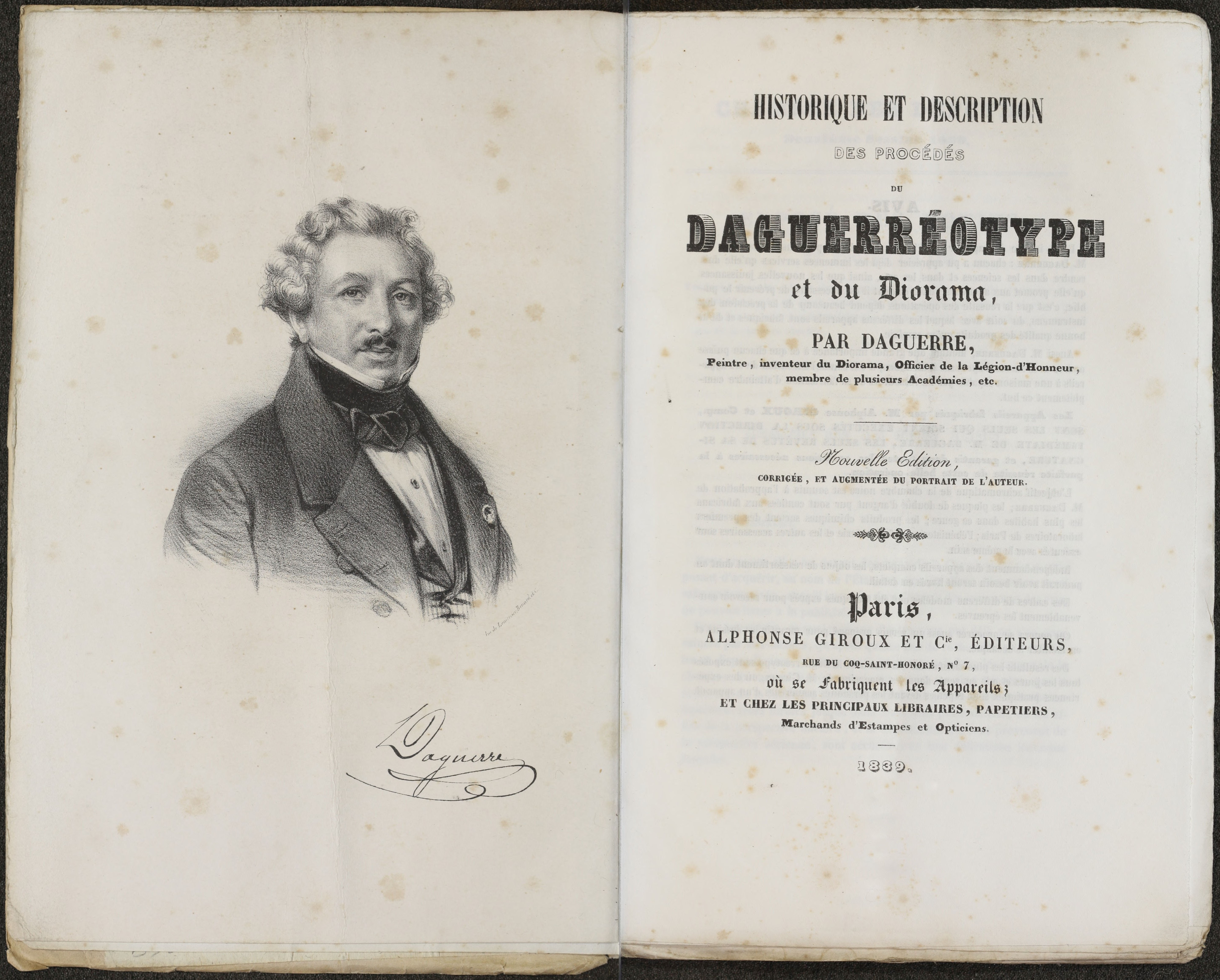 Title pages of the second edition, first issue (Newhall 8) of Daguerre's exposition of the photographic process invented and developed by him. Published soon after François Arago's lecture by order of the government to meet the intense public demand for more information about the process.